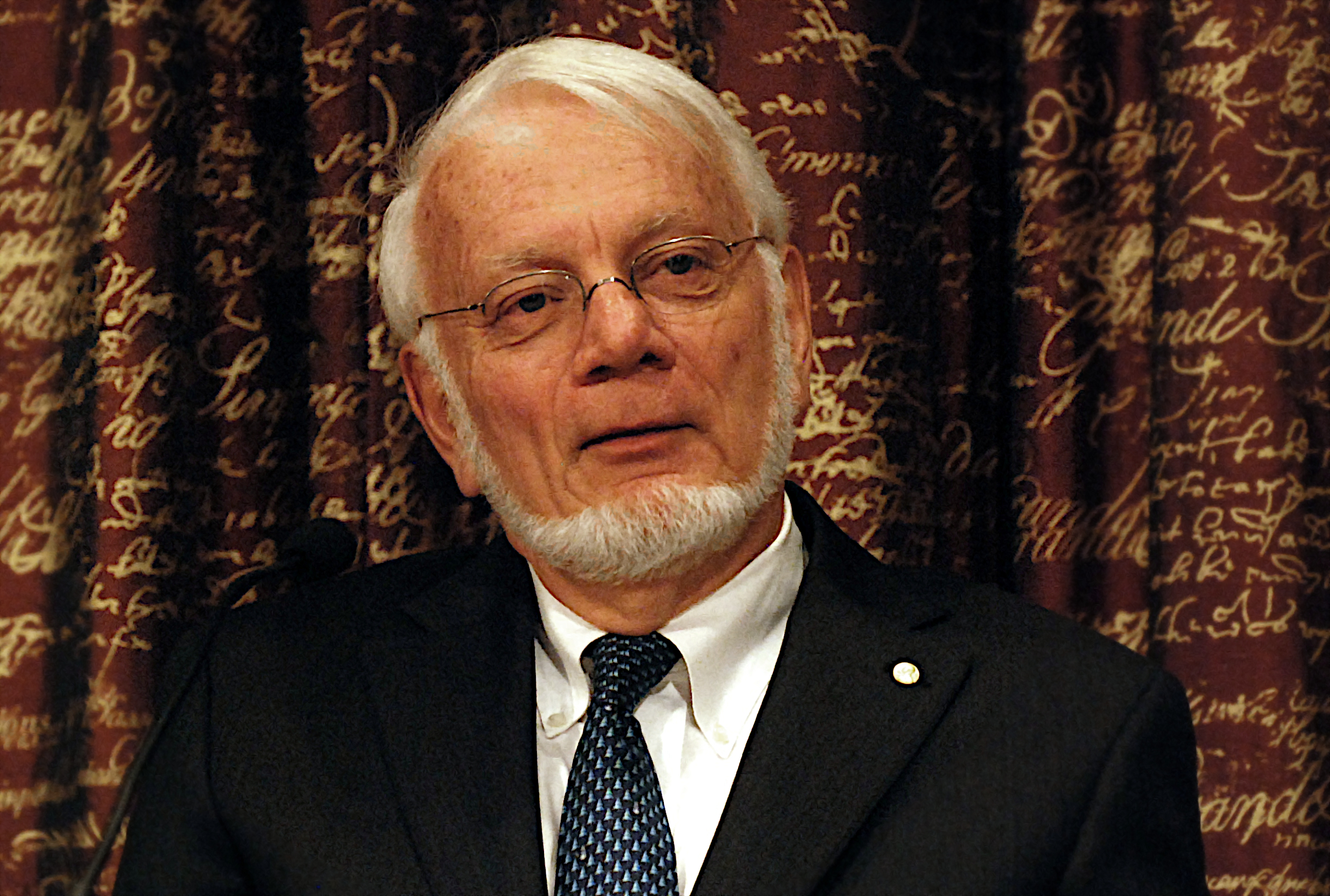 Nobel Prize 2009, press conference with the laureates at the KVA: Thomas A. Steitz.